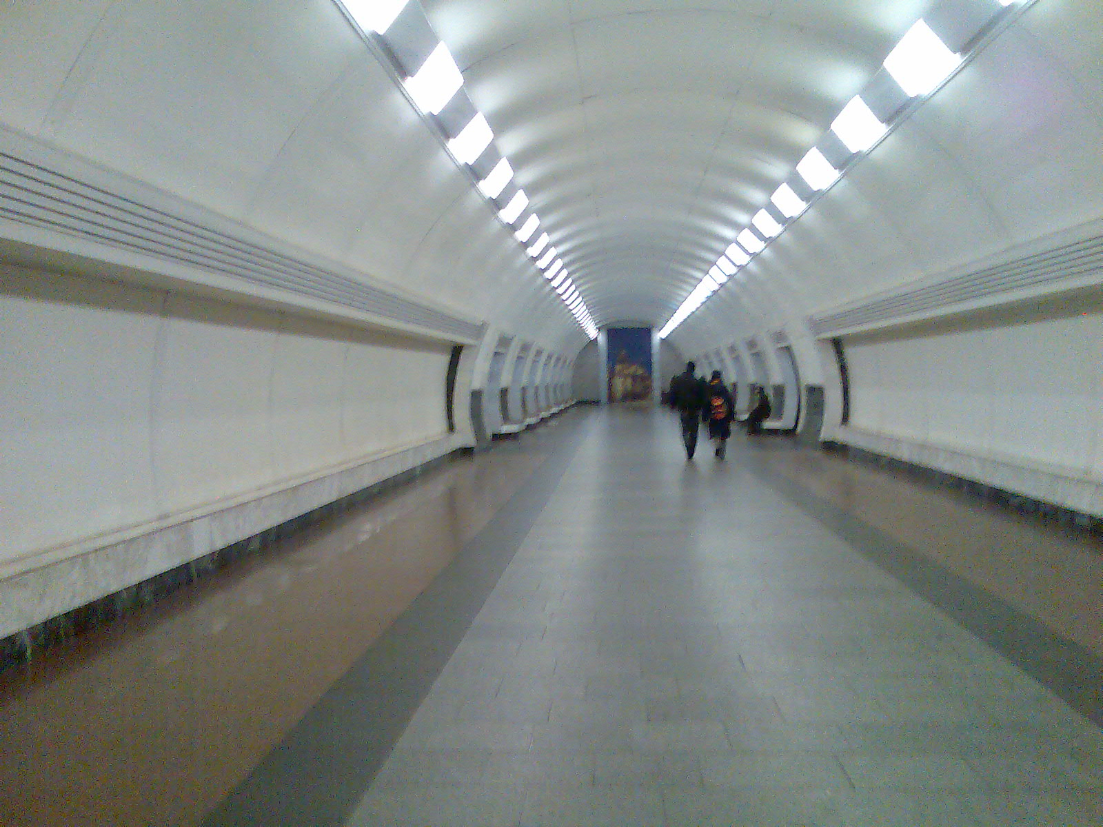 Dorogozhychi Metro Station (Kiev, Ukraine)